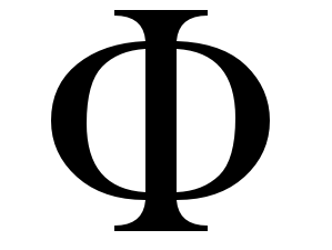 Logo of the VGST dispute Phi